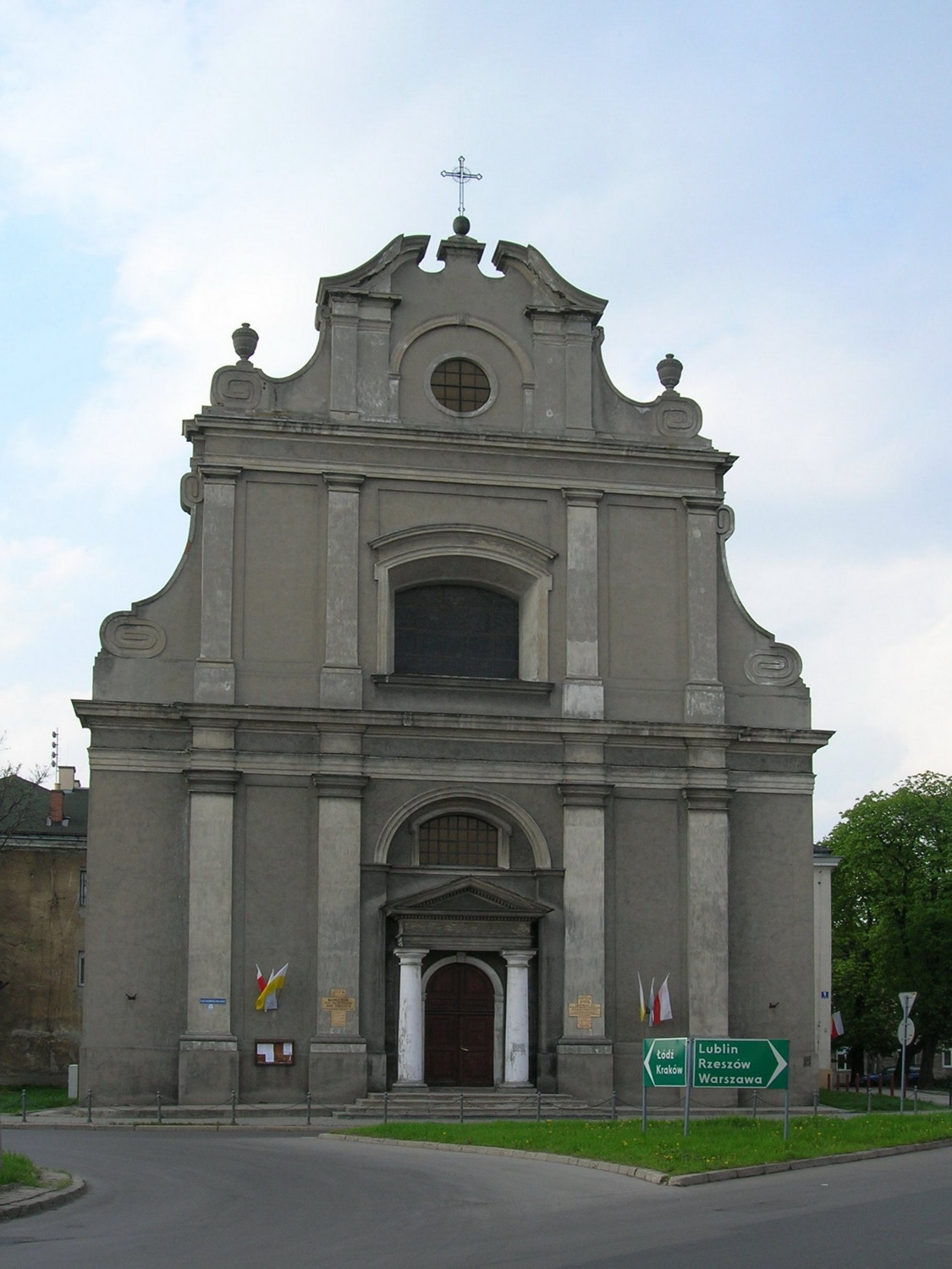 Radom - Holly Trinity Church.